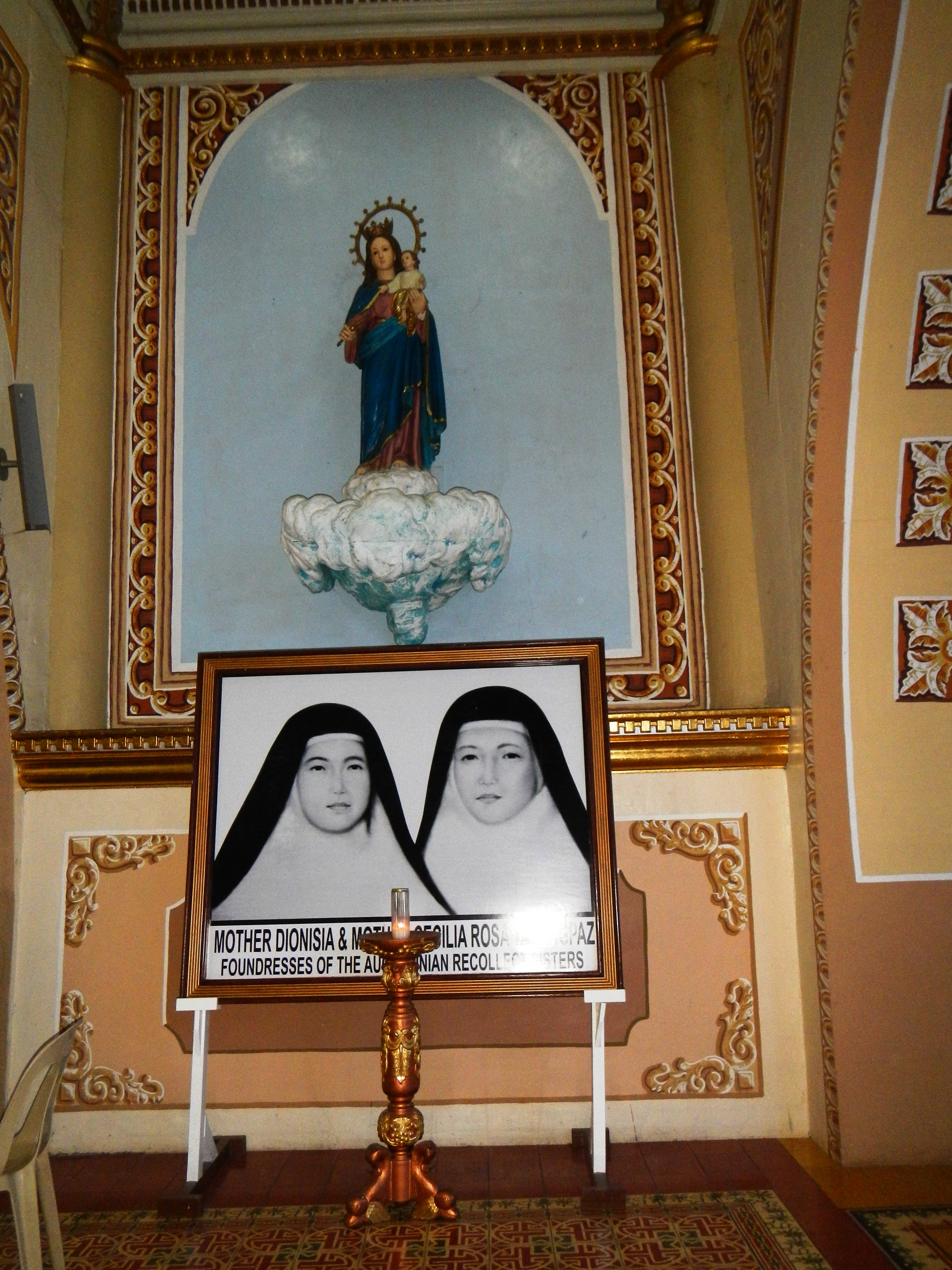 Blessed Photos of Servants of God Dionisia de Santa María Mitas Talangpaz (1691–1732)] and Rosa de Jesús Talangpaz (1693–1731) in Saint John the Baptist Church, Calumpit, Bulacan built in 1572, Gen. Tanaka’s Japanese Imperial Army last battlefield - Consecrated on February 19, 2000, Marker, September 28, 2013, declared a Diocesan Shrine of Saint John the Baptist, Marker; Interiour, choir loft and altar, faithfull in- beside the Saint John the Baptist Catholic School (High School Dept) Calumpit town proper, Barangay Poblacion, Calumpit, Bulacan beside the Site of old Calumpit Institute the new site being in Barangay Corazon, Calumpit, Bulacan[1] in MacArthur Highway.